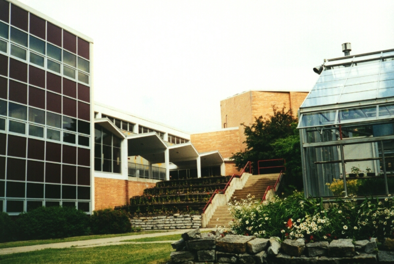 Nick Barrett, 2006